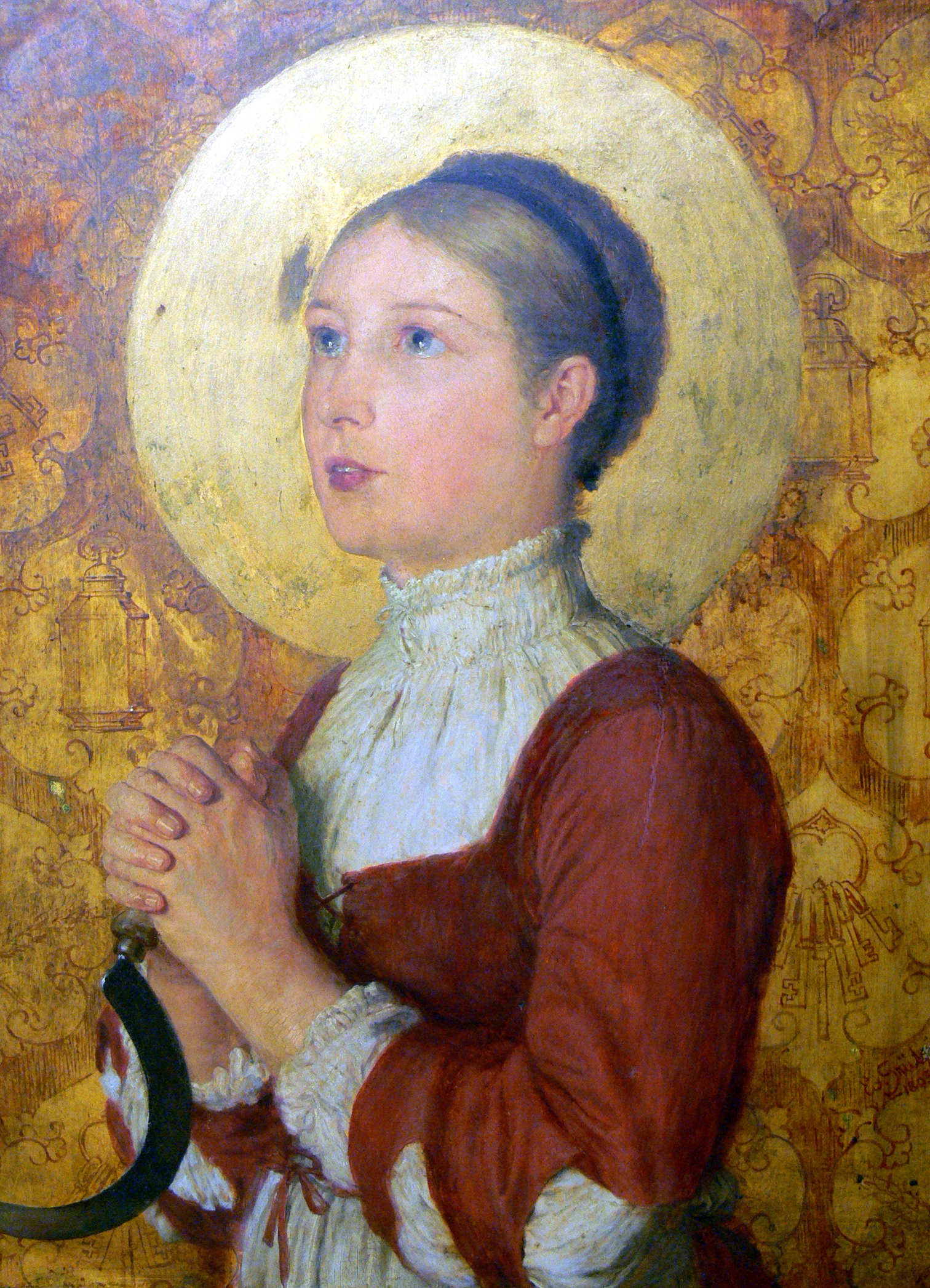 Rattenberg (Tyrol). Augustine museum - Notburga of Rattenberg ( 1895 ) by Eduard von Grützner, from St.Margarethen (Tyrol).